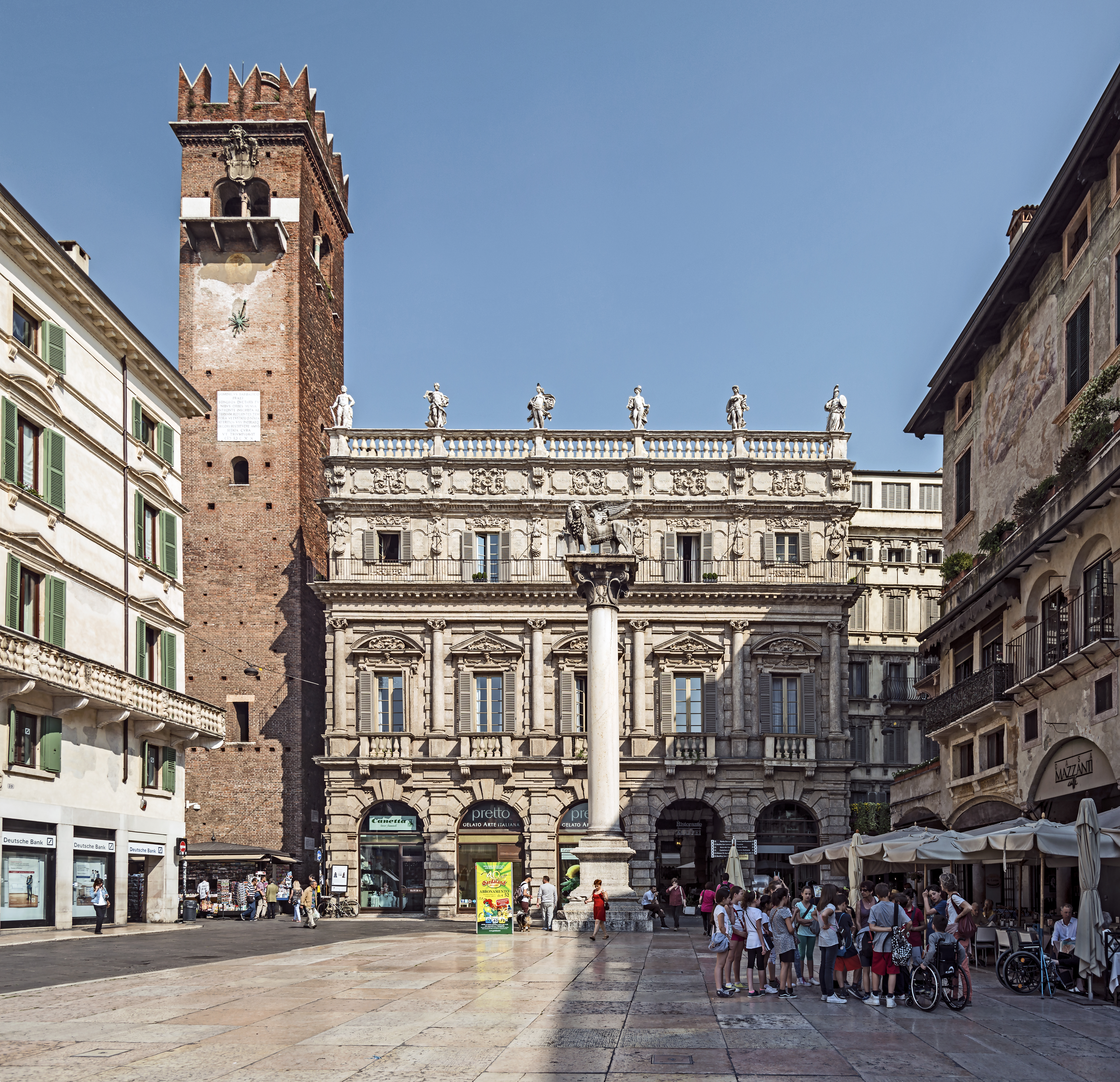 Northern part of the Piazza delle Erbe with the facade of the Palazzo Maffei and Torre del Gardello in Verona.